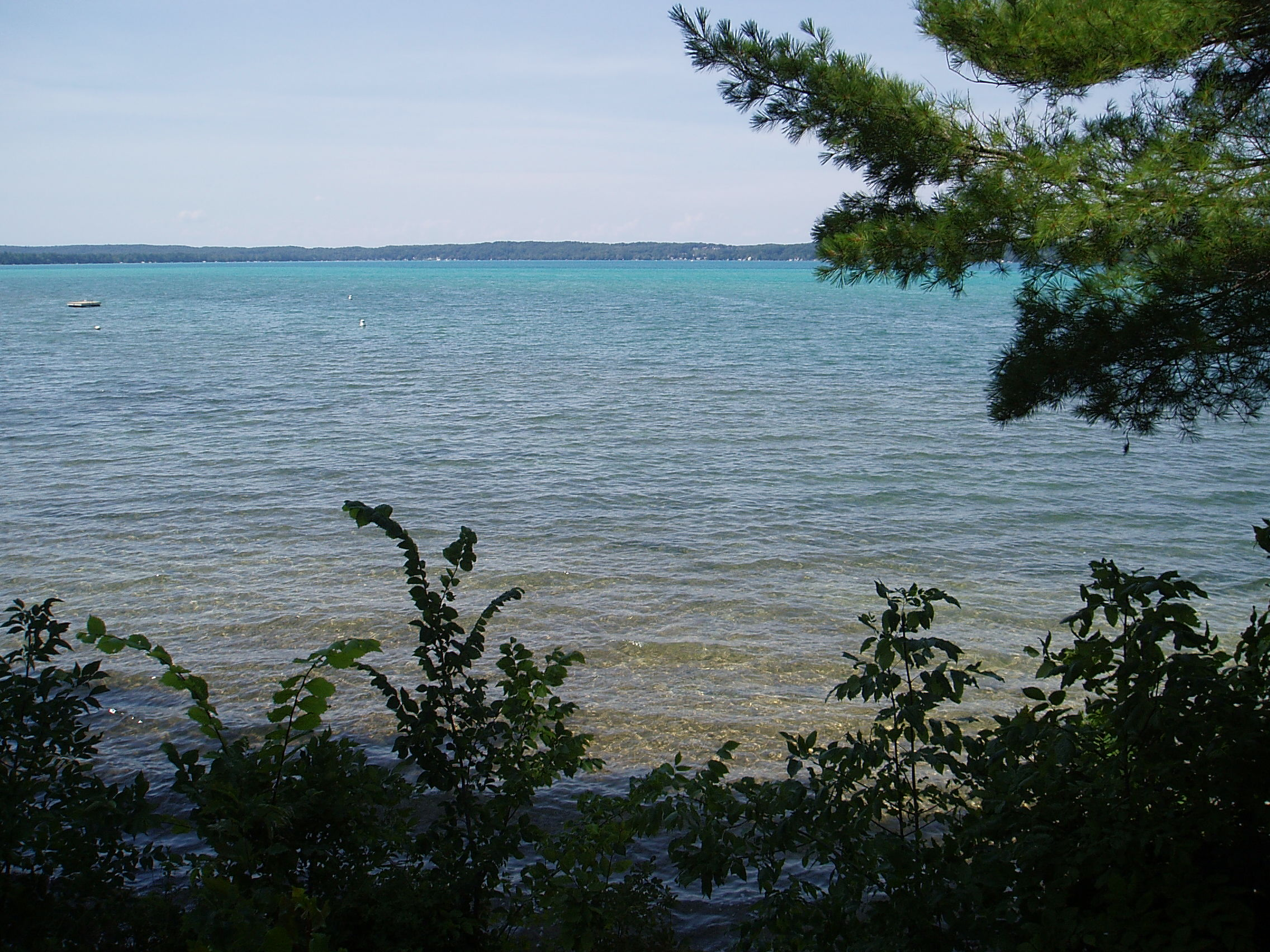 Michigan's Torch Lake (Antrim County), taken from shore near Alden, August 2004. H.G. Judd